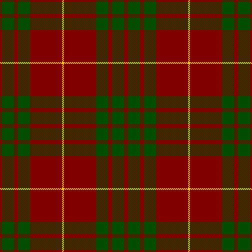 Cameron tartan, as published in the Vestiarium Scoticum. Modern thread count: R8 G24 R8 G24 R64 Y4.